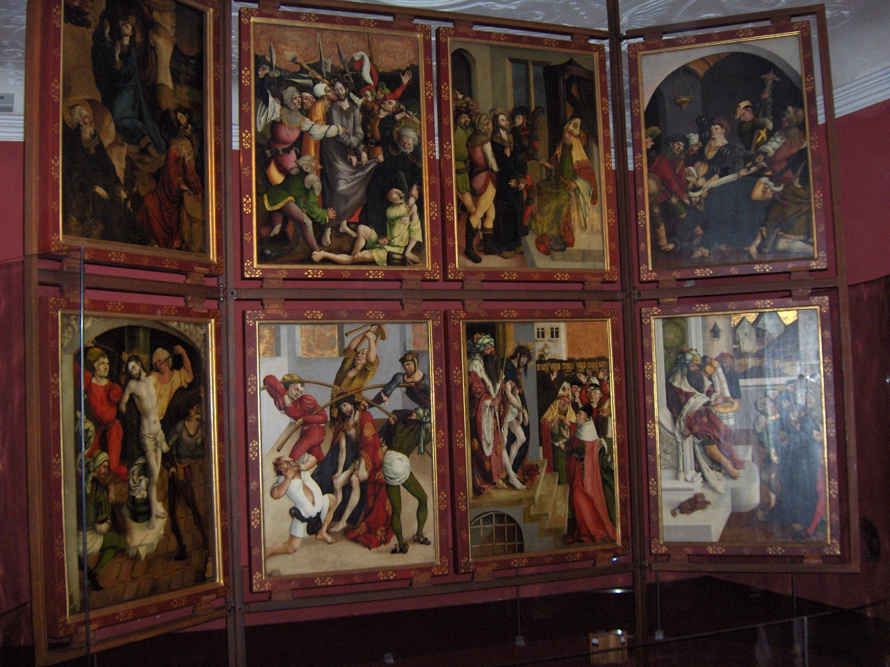 Melk altar (1502); tempera on wood; museum of the Melk Abbey, Austria